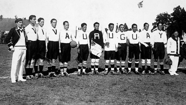 Bolivia national football team line-up on July 17, 1930, right before the match against Yugoslavia. From left to right: Diógenes Lara, Jorge Luis Valderrama, Segundo Durandal, Gumercindo Gómez, Juan Jorge Argote, Jesús Bermúdez, Mario Alborta, José Bustamante, Rafael Méndez, René Fernández and Casiano José Chavarría